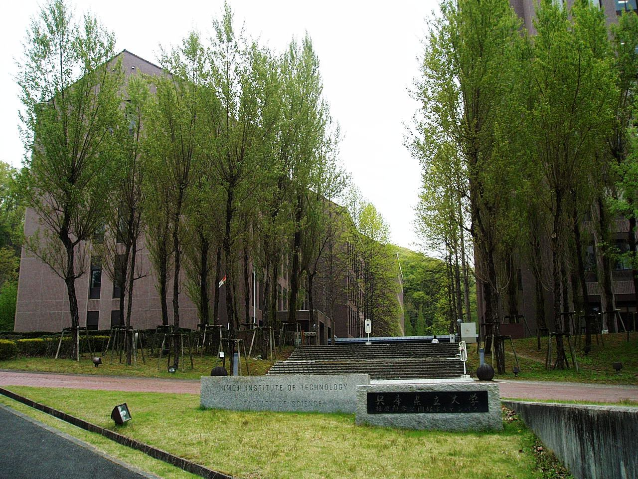 Harima Koto Campus (Faculty of Science), the University of Hyogo, located in Kamigori, Hyogo, Japan.